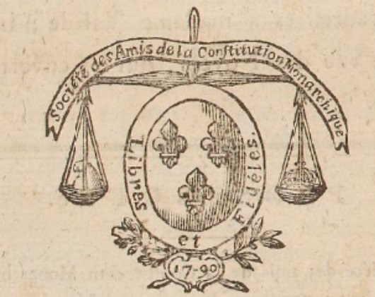 The emblem of the Amis de la Constitution Monarchique, a club founded by the Monarchiens during the French Revolution. From the title page of their magazine.